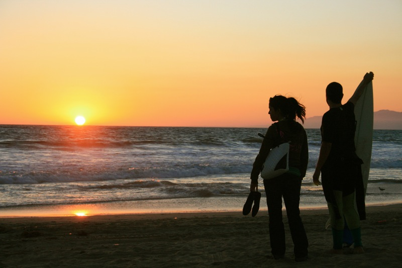 The sunset over Santa Monica Bay at Venice Beach park, Southern California